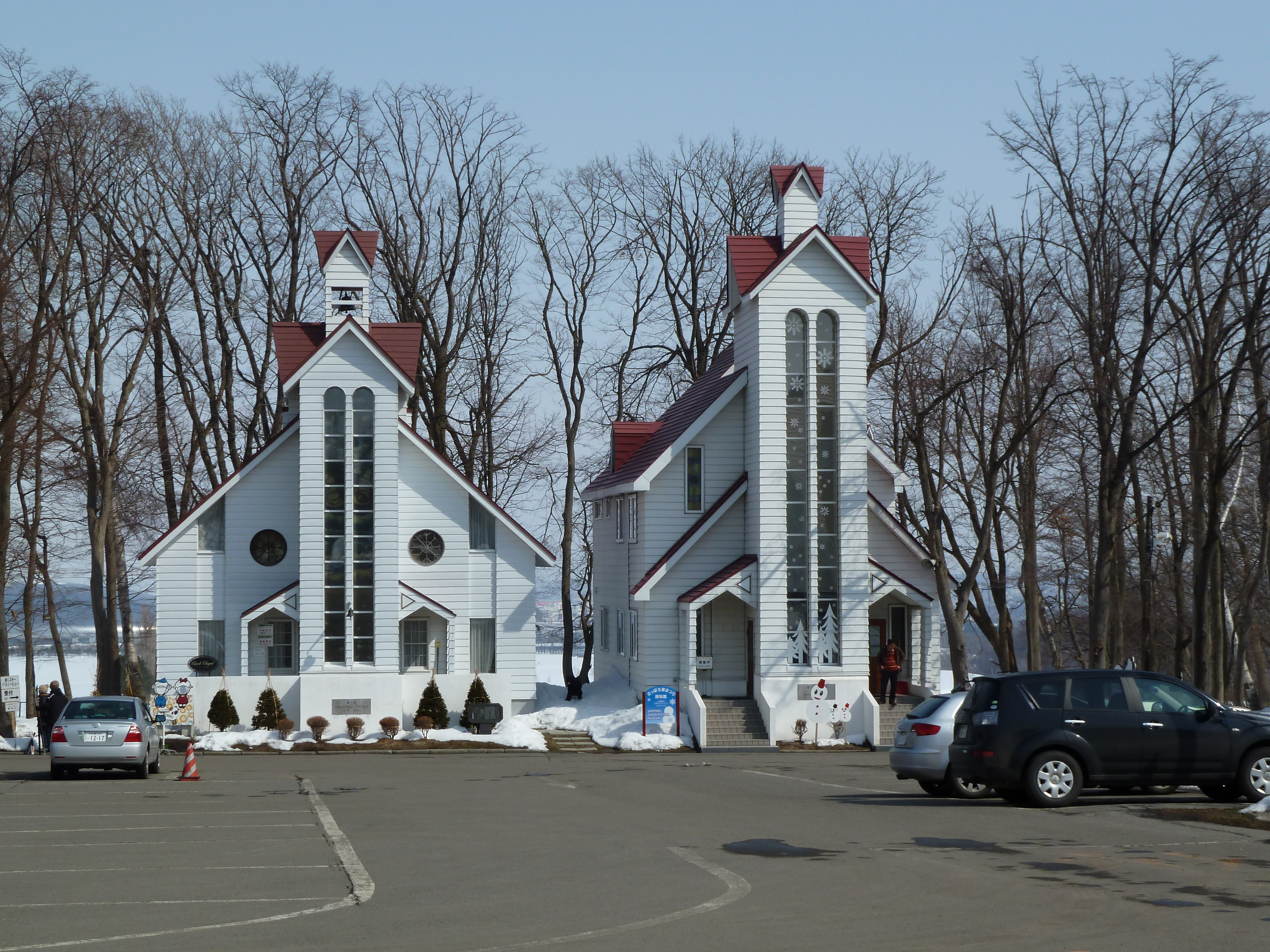 クラークチャペル